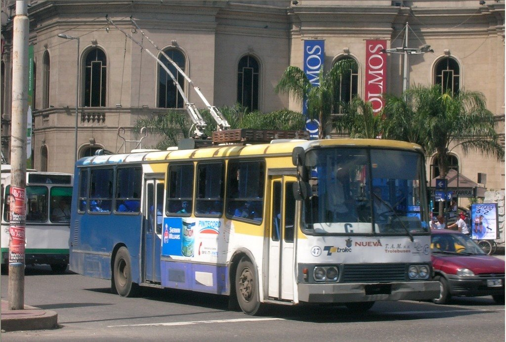 Chinese Trolleybus in Córdoba (near Patio Olmos), Argentina.